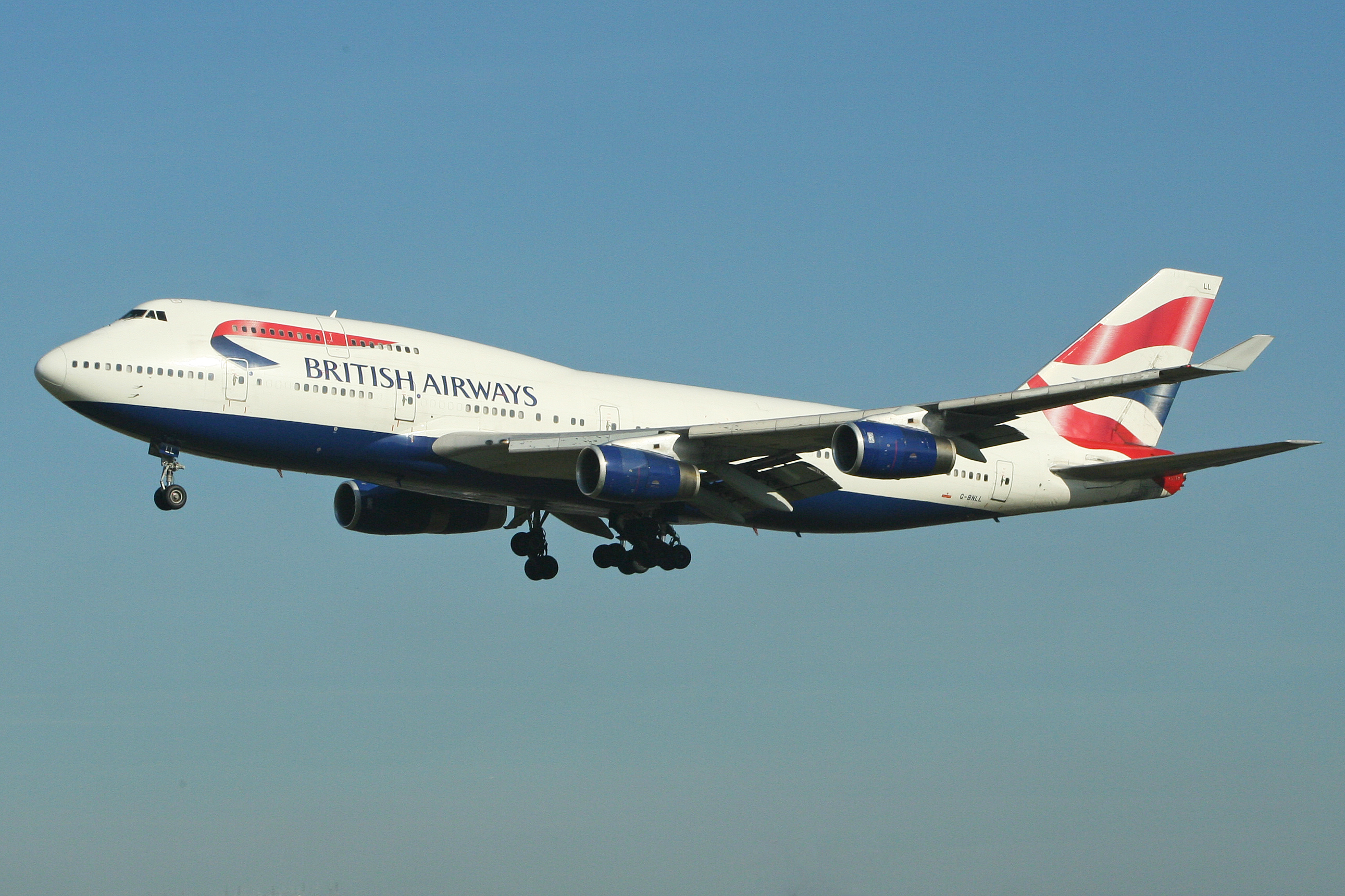 msn 24054, l/n 794. Arriving on flight BA196. London Heathrow. 26-2-2012